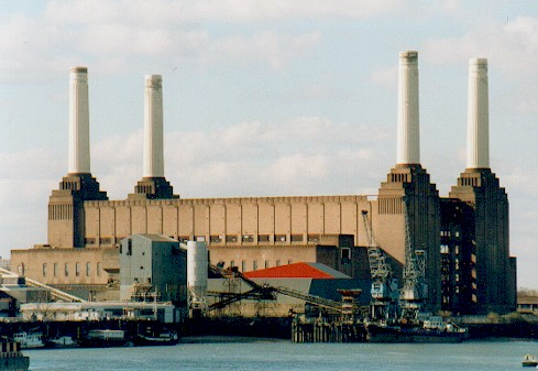 Battersea Power Station, London. Selbst fotografiert, GNU-FDL